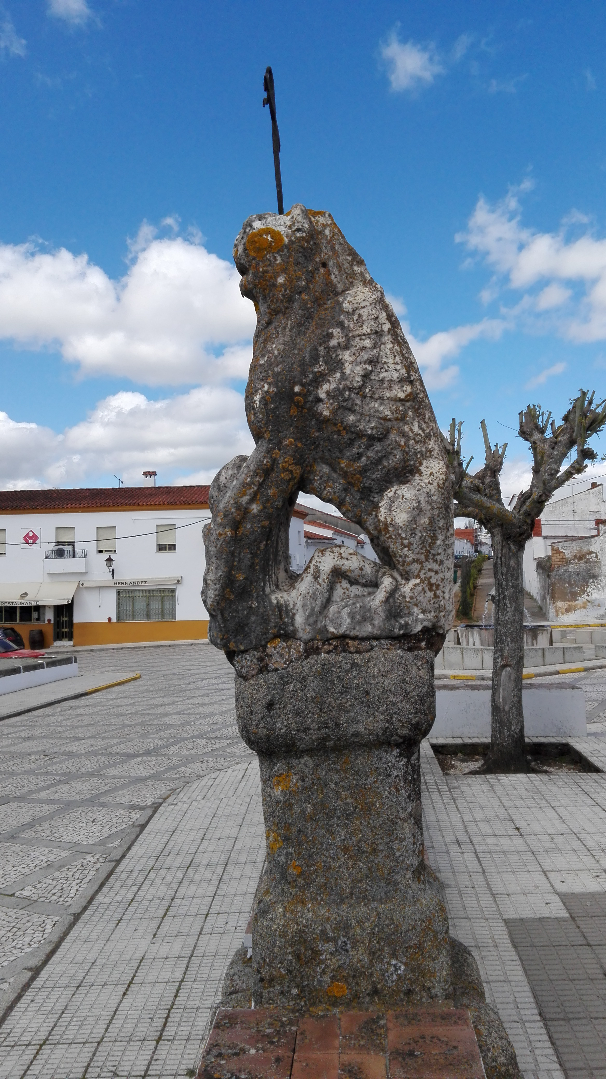 Vista lateral de "La Mamarracha"